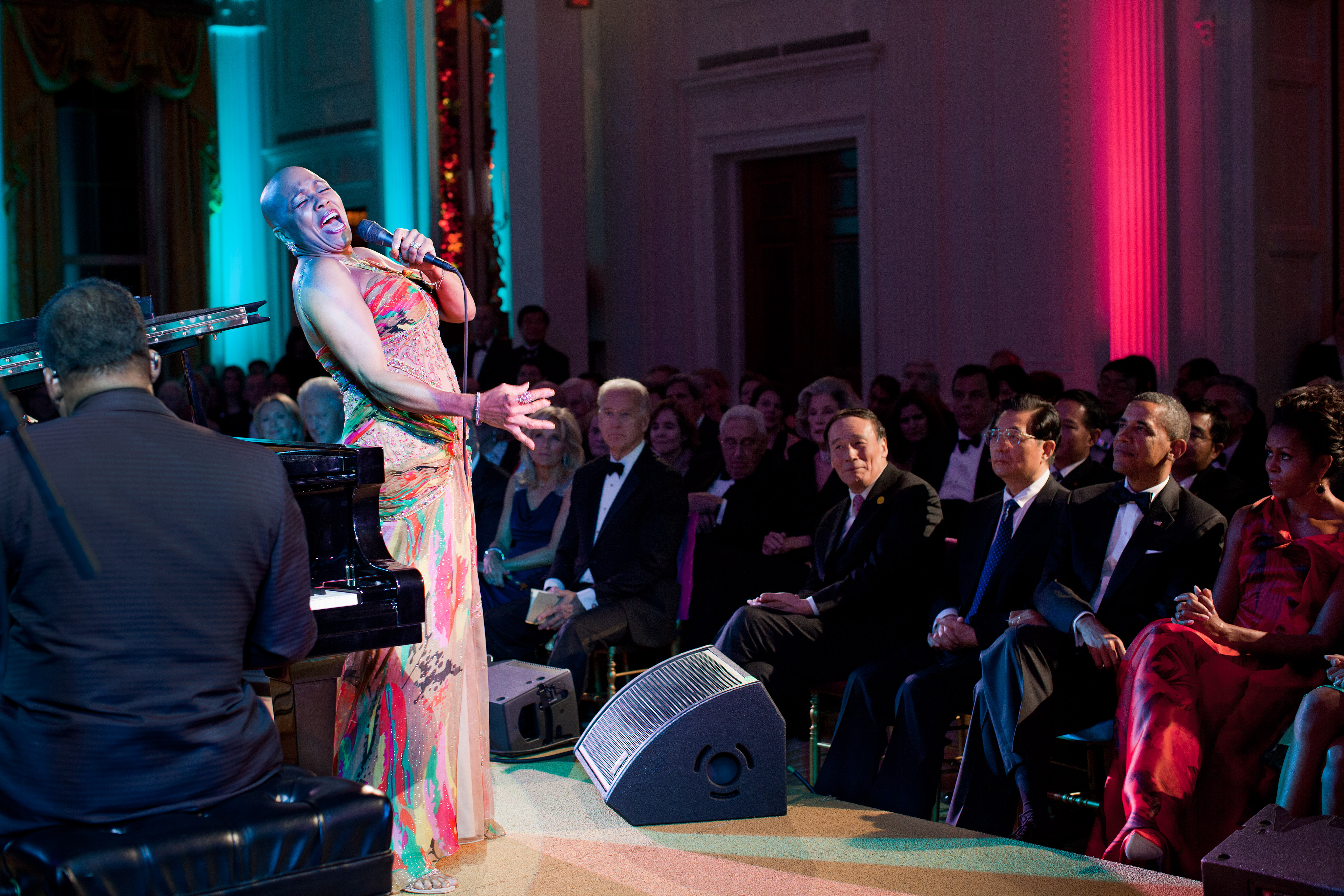 Dee Dee Bridgewater performs during the State Dinner reception in the East Room of the White House, Jan. 19, 2011. (Official White House Photo by Pete Souza)